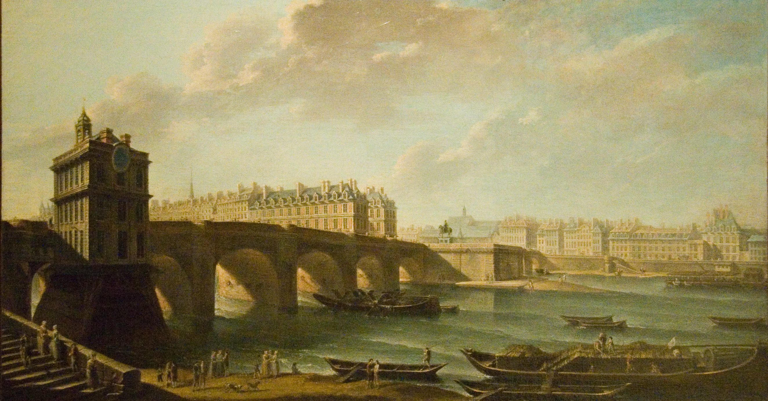 Le Pont Neuf, la Samaritaine et la pointe de la Cité; painting at the Musée Carnavalet, Paris